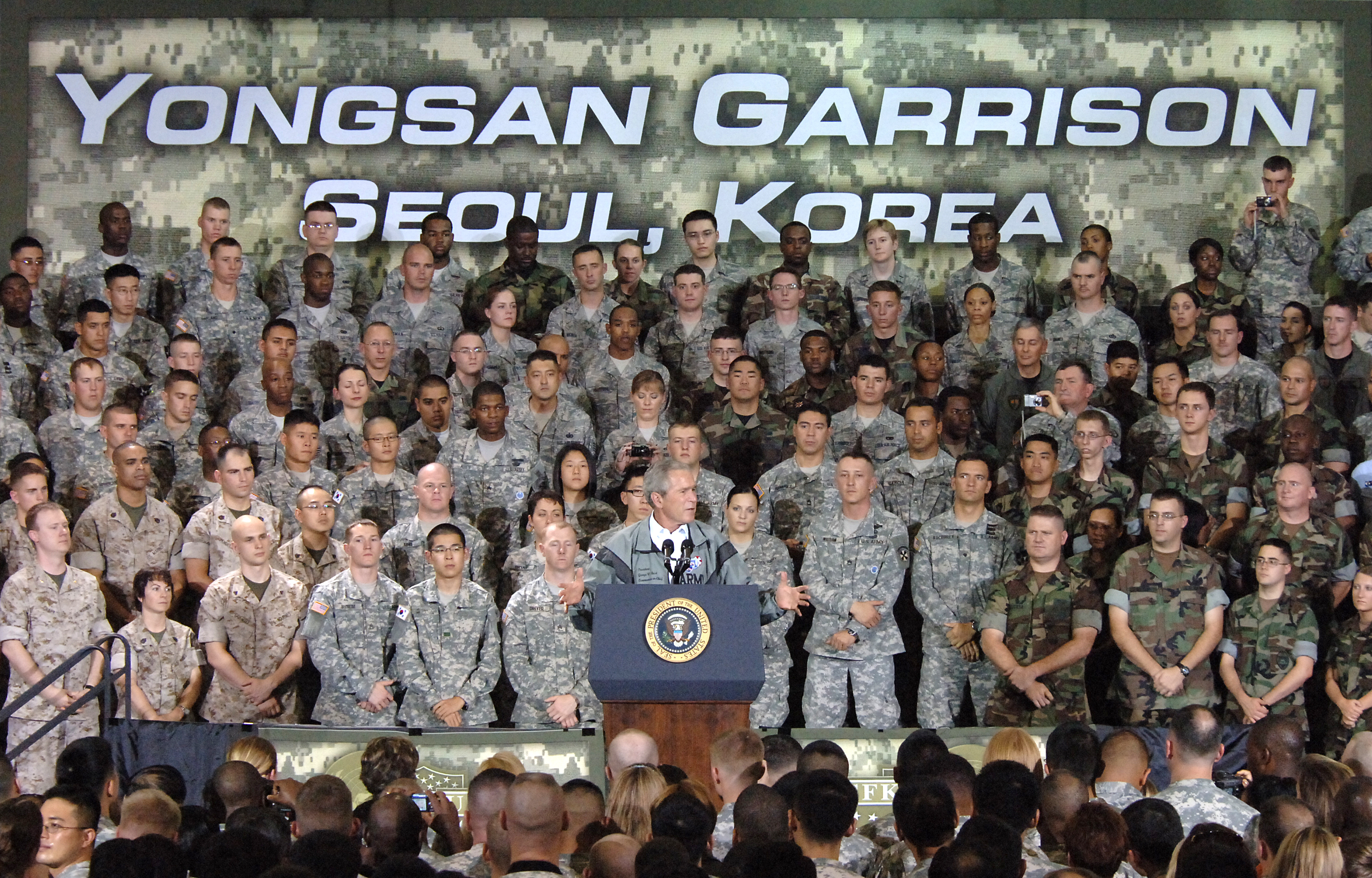 President George W. Bush spoke to military personnel, their families and civilian employees at Collier Field House while visiting U.S. Army Garrison Yongsan, Aug. 6, 2008. U.S. Army Installation Management Command, Korea Region official image archive